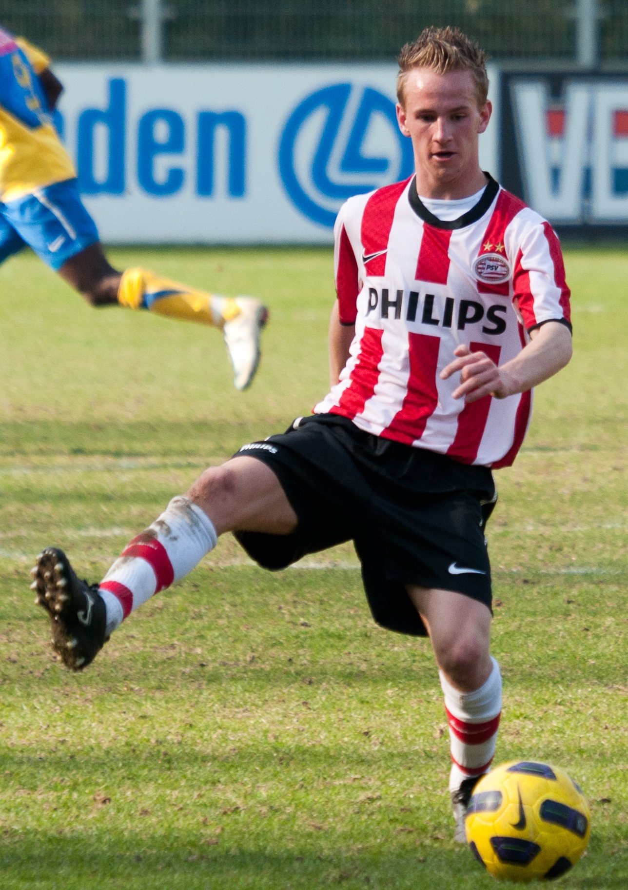 PSV's Jason Bourdouxhe during a friendly match at the Herdgang, Eindhoven versus RKC Waalwijk (0-0) on 24 March 2011.